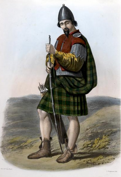 "Mac Laurin". A plate illustrated by R. R. McIan, from James Logan's The Clans of the Scottish Highlands, published in 1845.